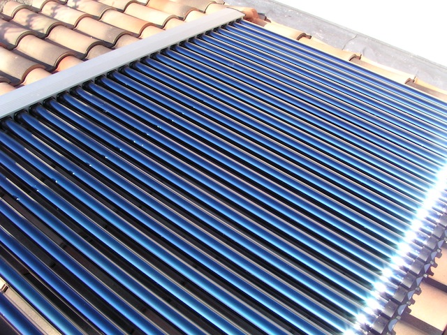 Evacuated tube solar thermal collector used to make hot water.